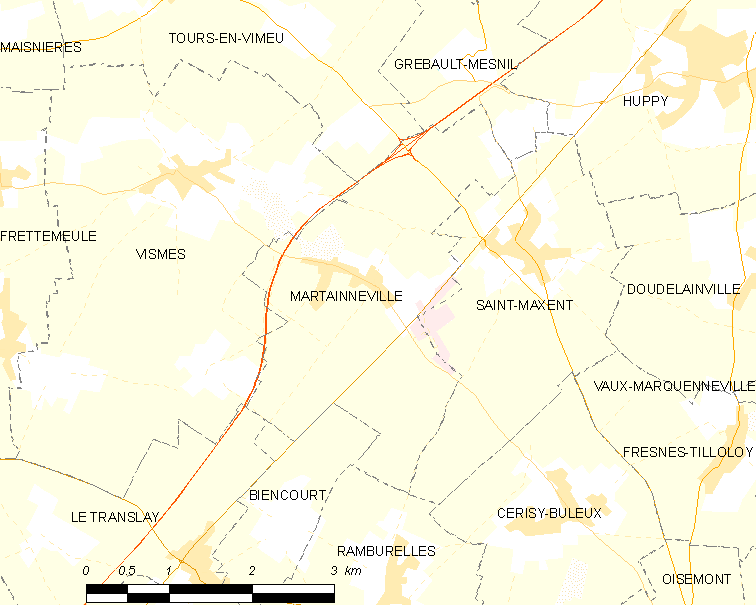 Map of French municipality Martainneville